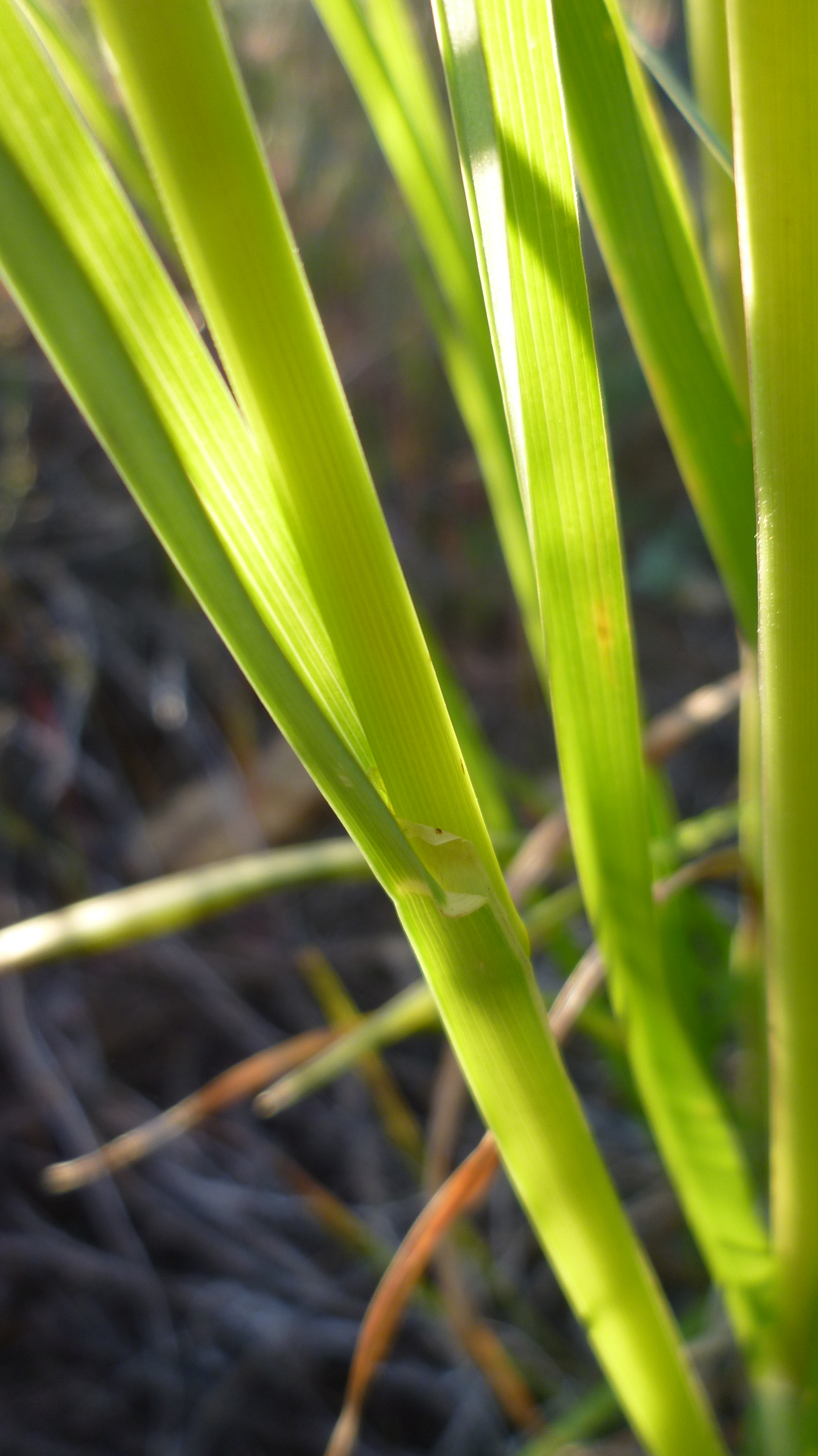 Dactylis glomerata stems and ligules in Swakane Canyon, Chelan County Washington